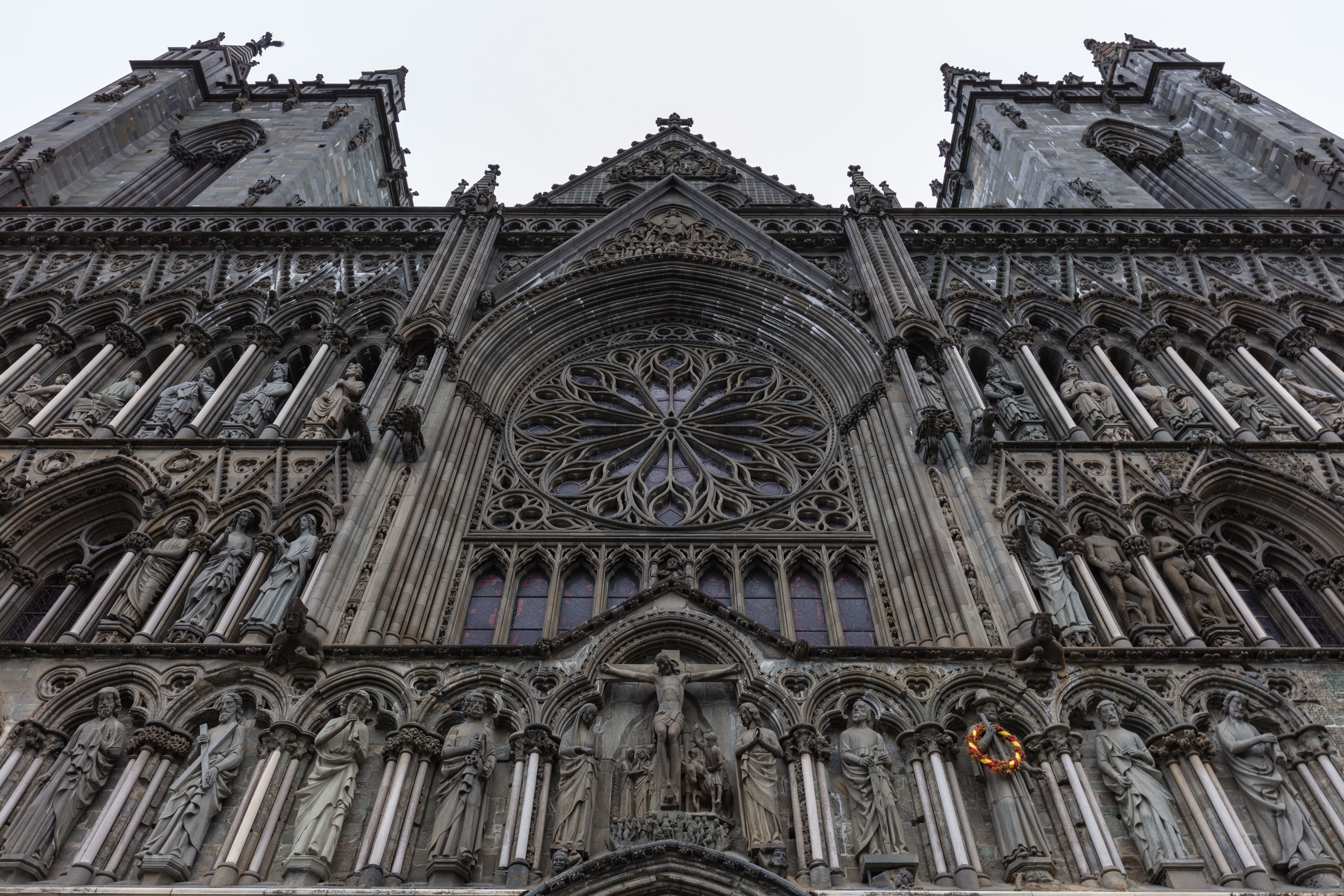 Nidaros Cathedral, Trondheim, Norway